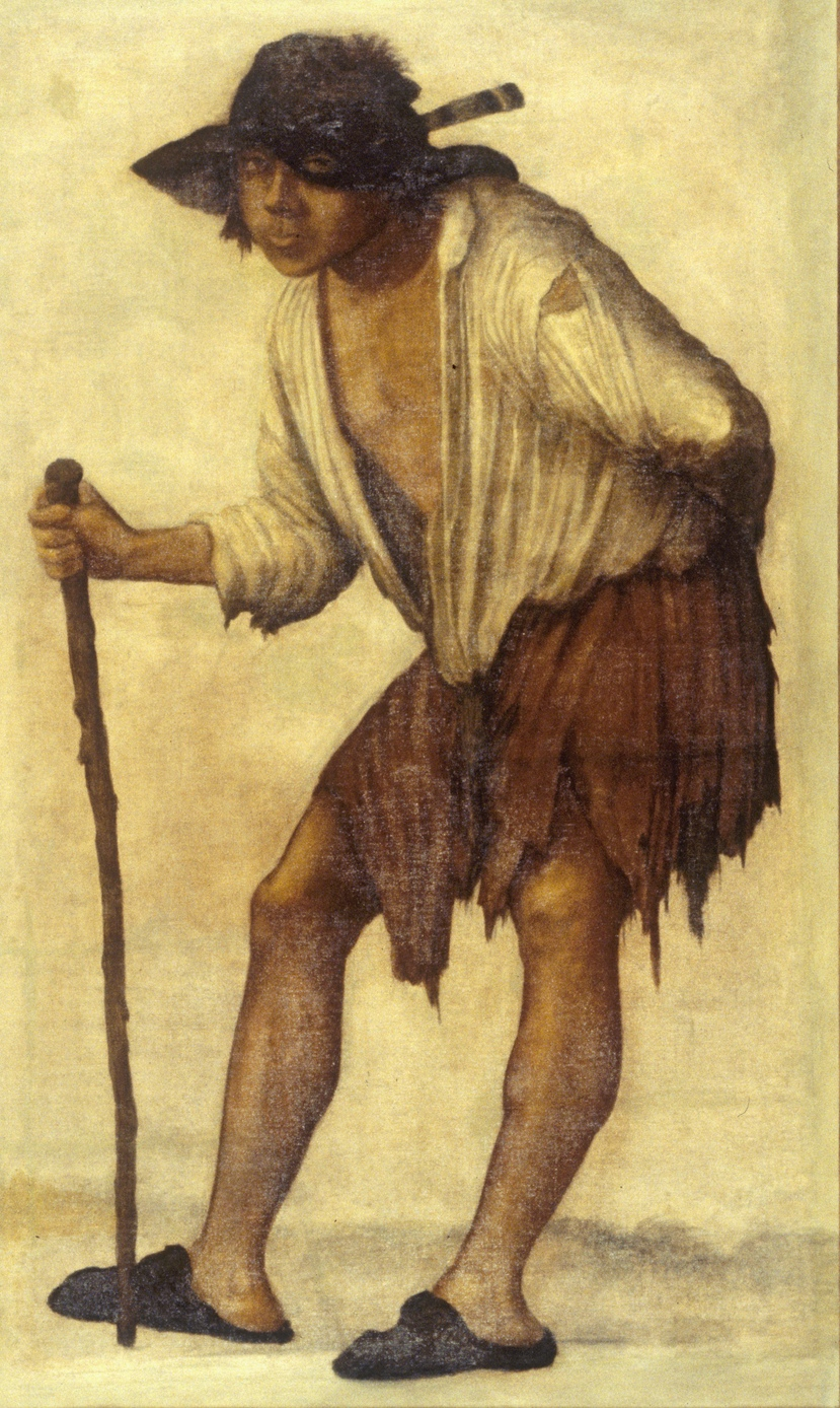 Beggar Looking through His Hat